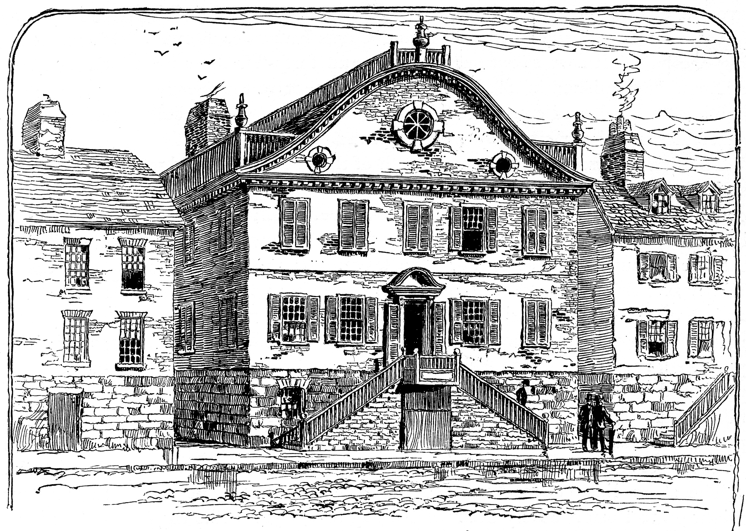 The Old Providence Bank. As it appeared nearly 100 years ago, still standing, with some change in appearance, on South Main Street.Engraving from The Providence Plantations for 250 Years, Welcome Arnold Greene, 1886. Page 75.